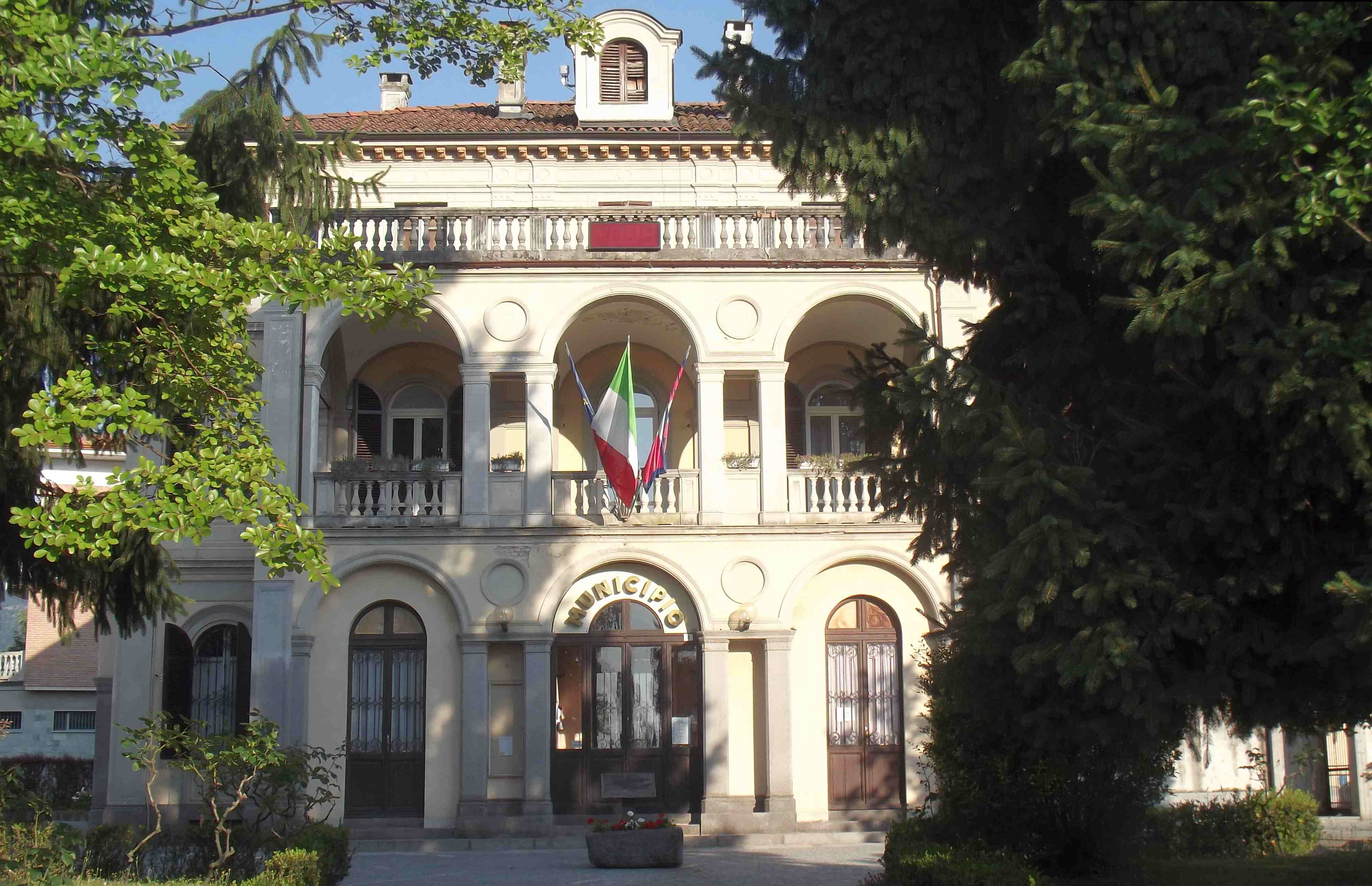 Occhieppo Superiore (BI, Italy): town hall